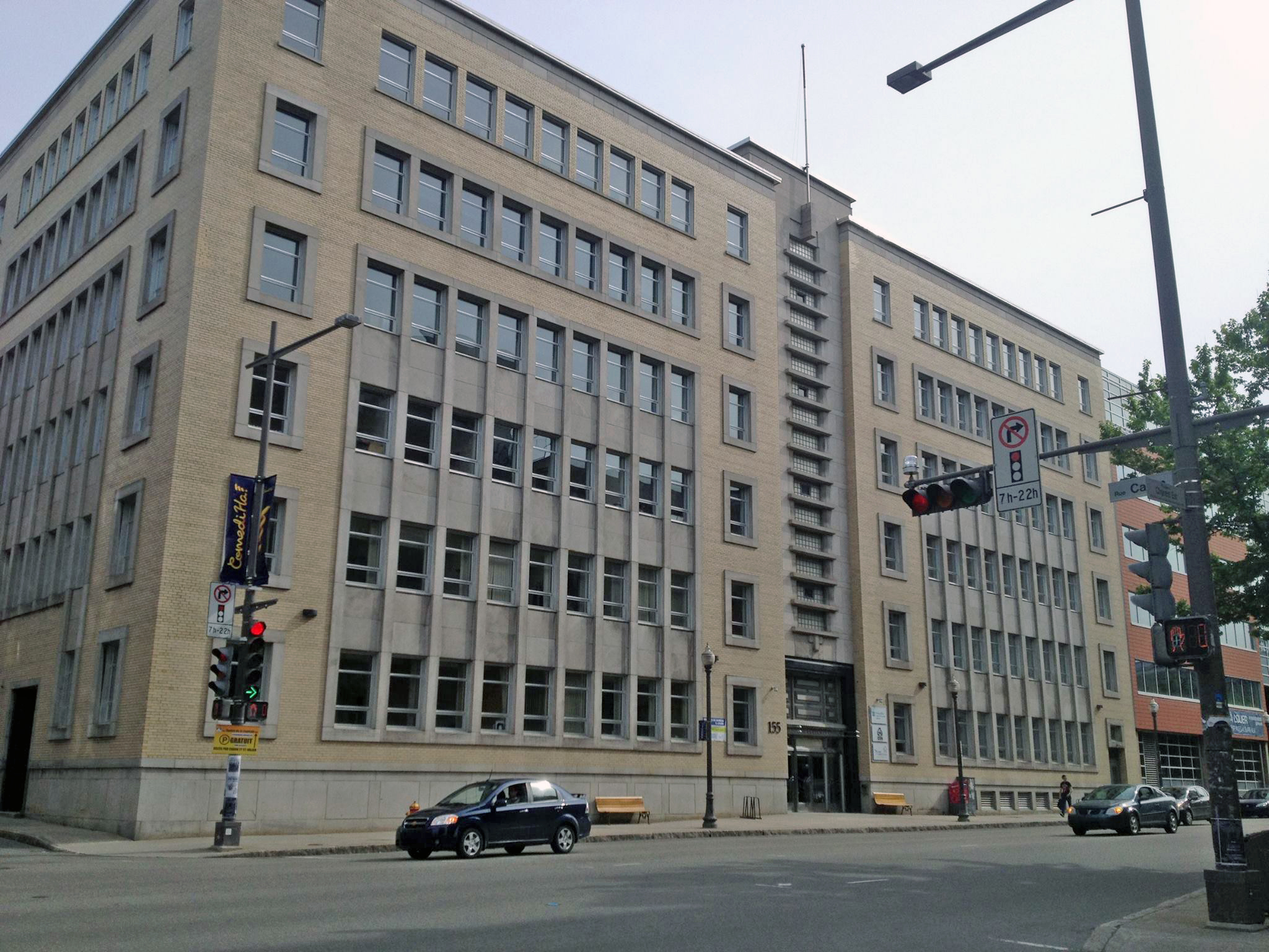 155, boulevard Charest Est, Québec. Il s'agit historiquement de l'édifice du Secrétariat des syndicats catholiques, siège social de la CTCC puis de la CSN, aujourd'hui devenu la Maison de la coopération.